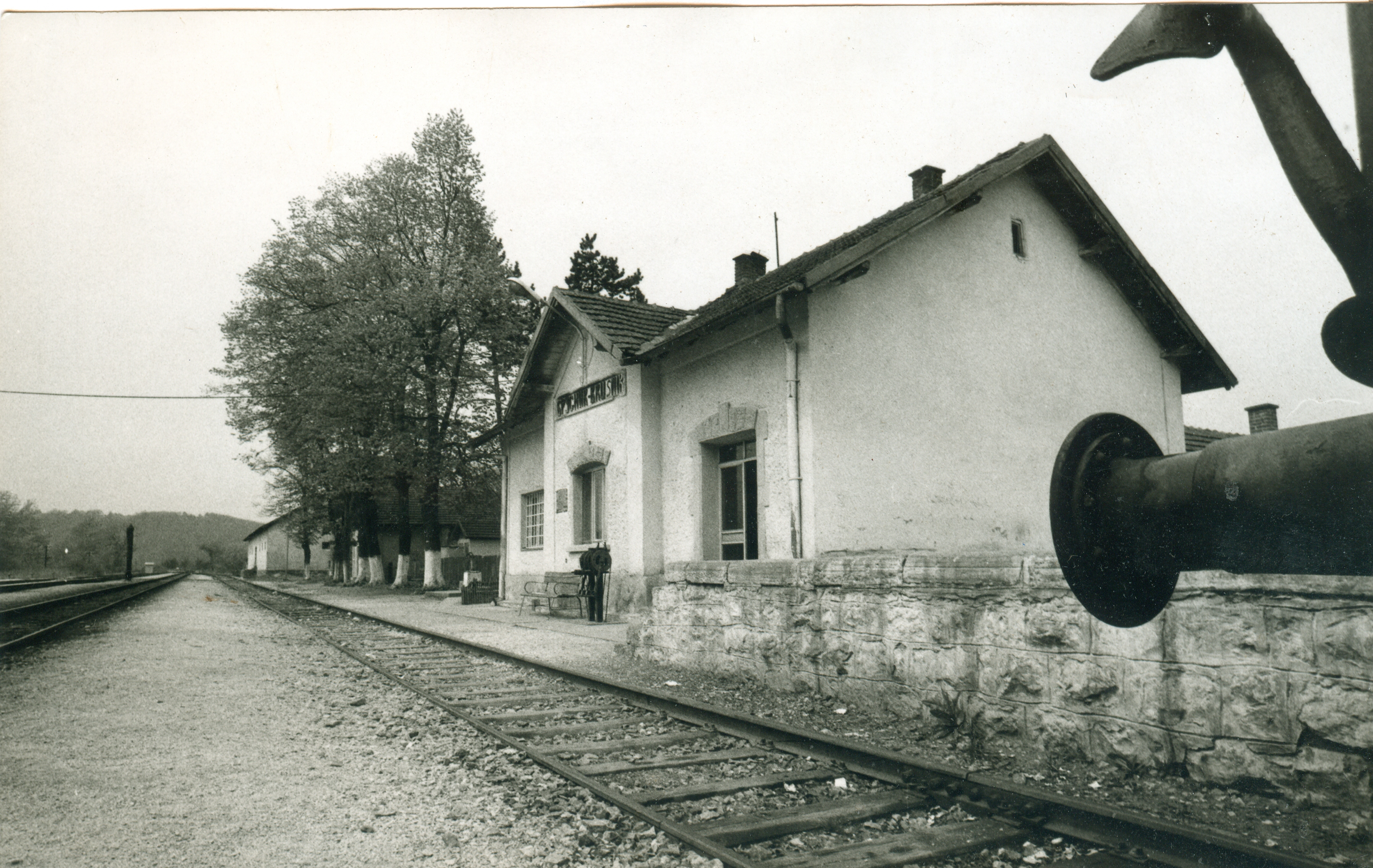 Train station in Brusnik near Zajecar Srpski (latinica): Železnička stanica Brusnik